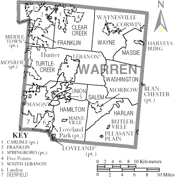 Map of Warren County, Ohio, United States with township and municipal boundaries